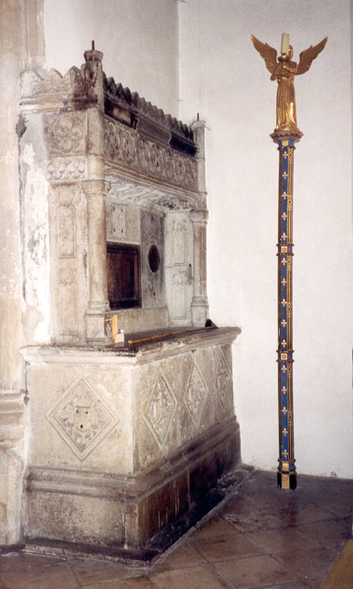 The Alter Tomb of William Honnyng in the Church of St Peter and St Paul, Eye, Suffolk, England